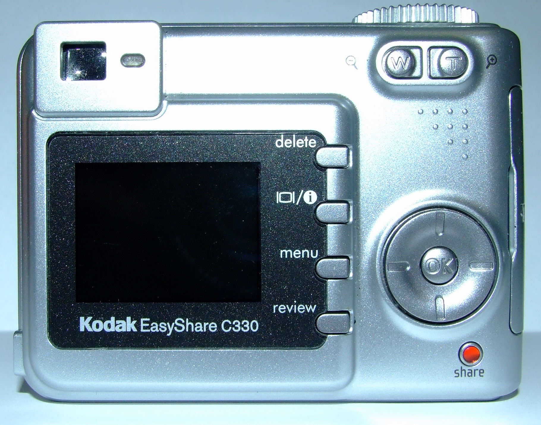 Kodak_EasyShare_C330_(panel with display)